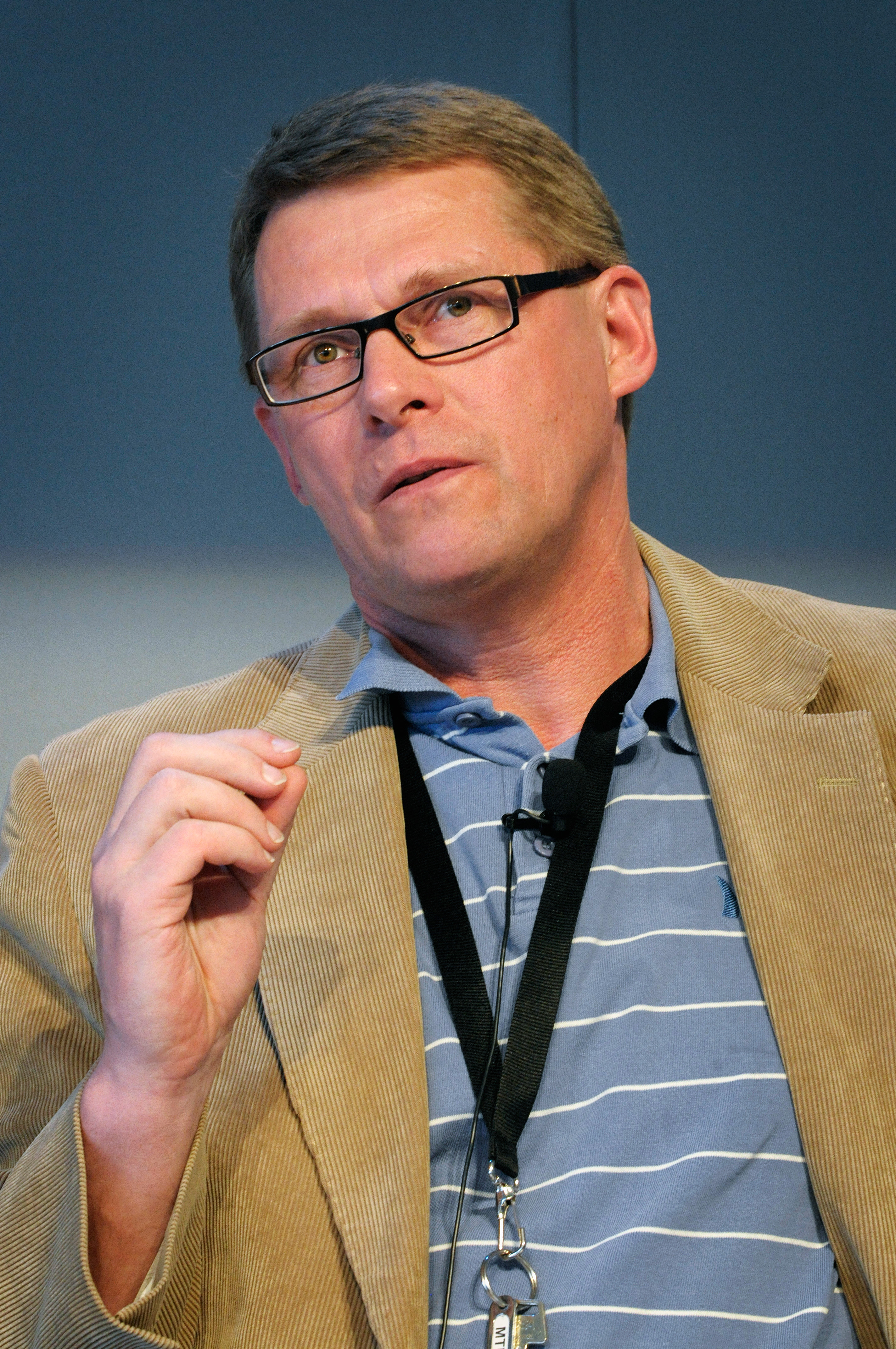 Matti Vanhanen in 2008